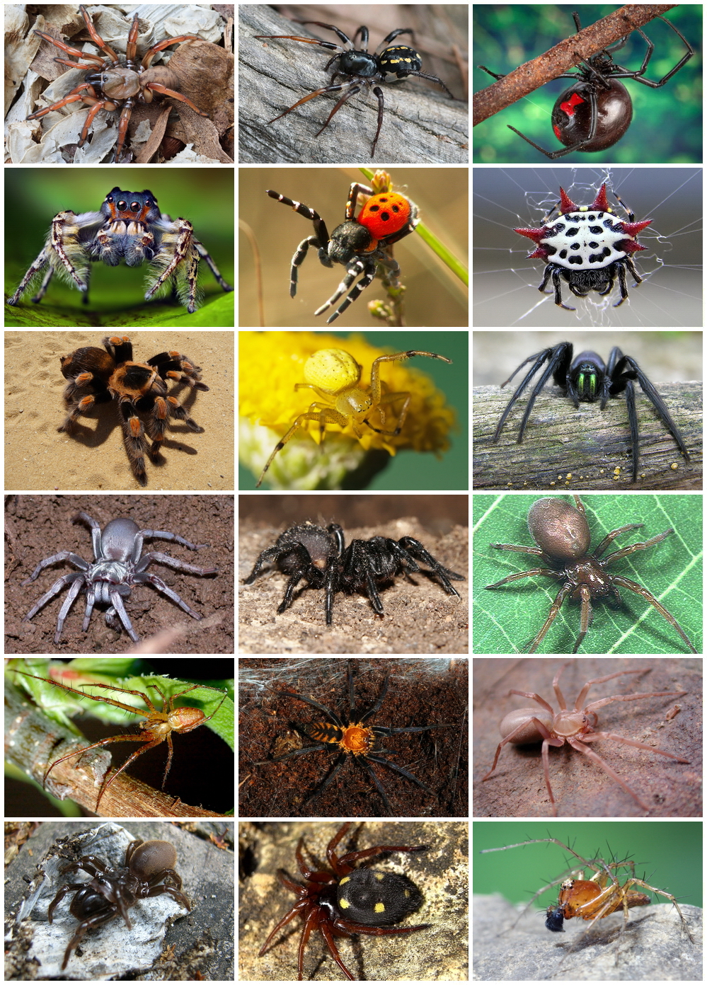 Spiders Diversity